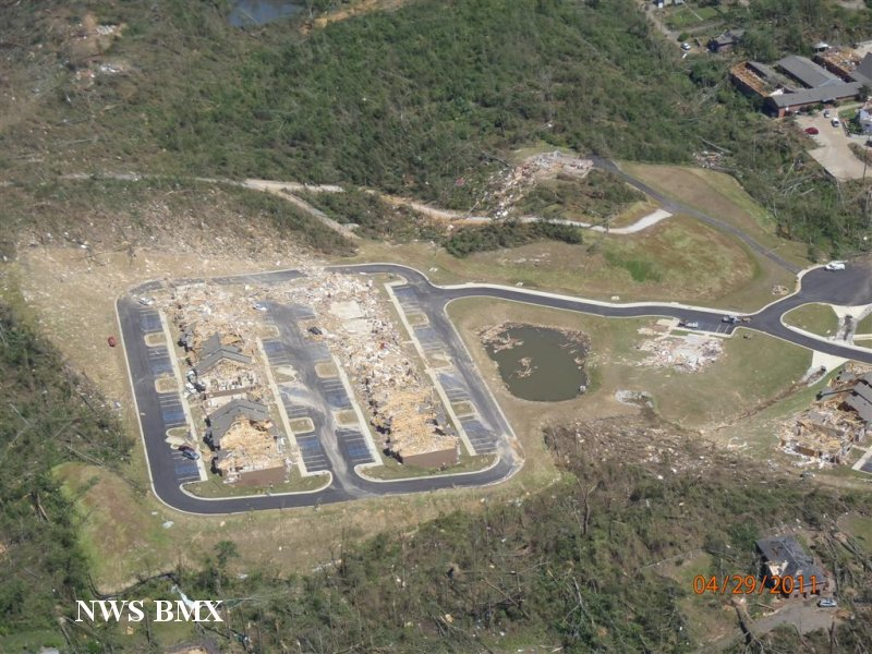 The second deadliest tornado of the outbreak struck parts of Tuscaloosa and Birmingham, Alabama on the afternoon of April 27, 2011. It was rated as a high-end EF4, destroying many structures, including this apartment complex.